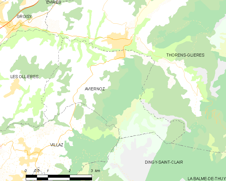 Map of French municipality Aviernoz